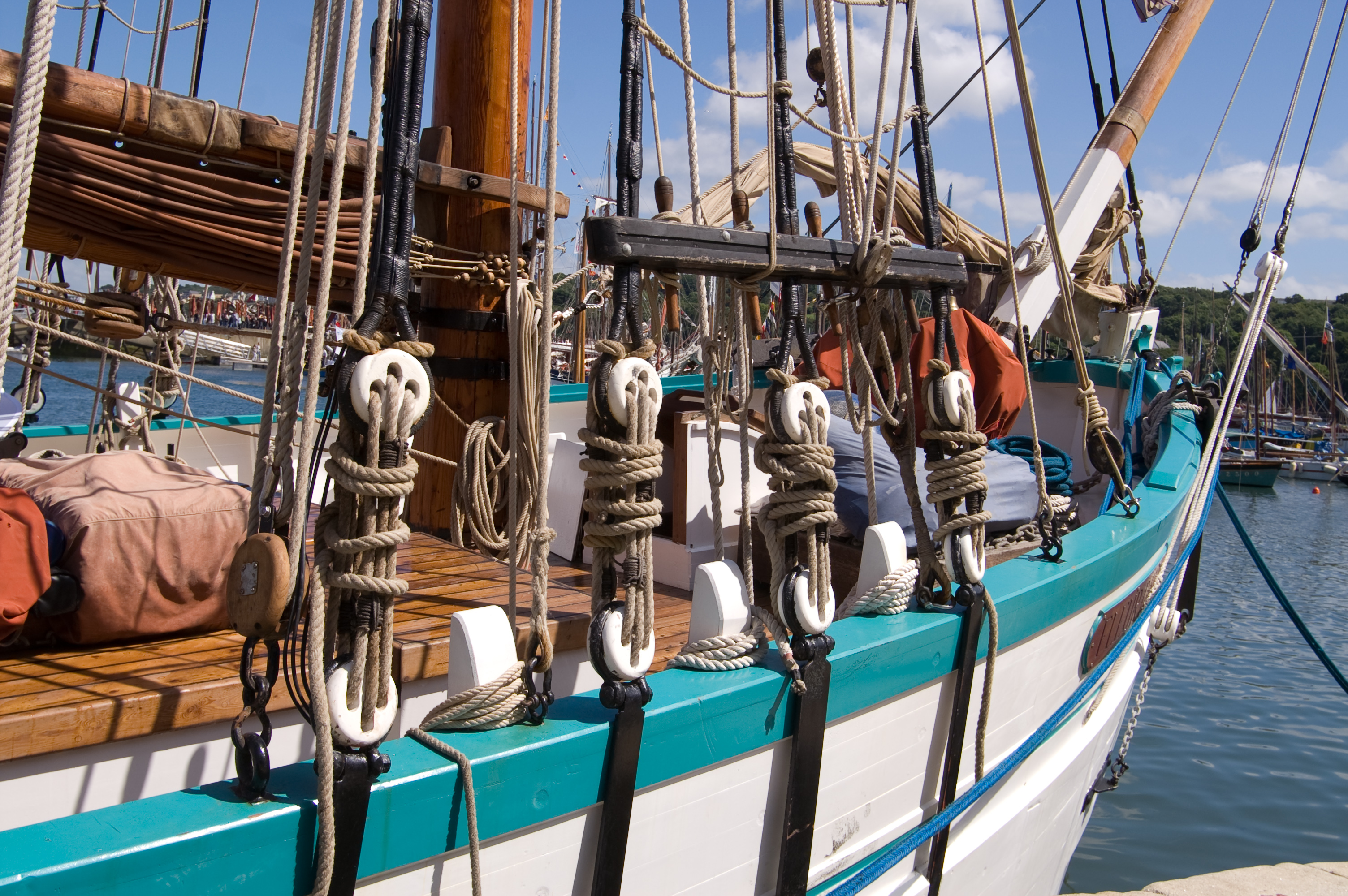 The french boat Fleur de Lampaul